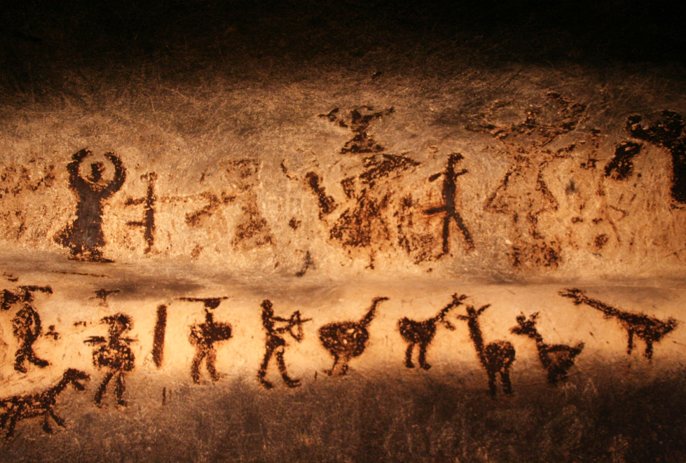 A photo from inside the Kozarnika cave, Belogradchik